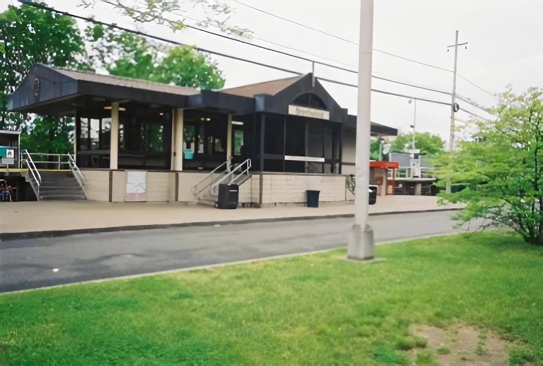 The current Brentwood (LIRR station) house, taken from a section of the parking lot in Brentwood, New York.